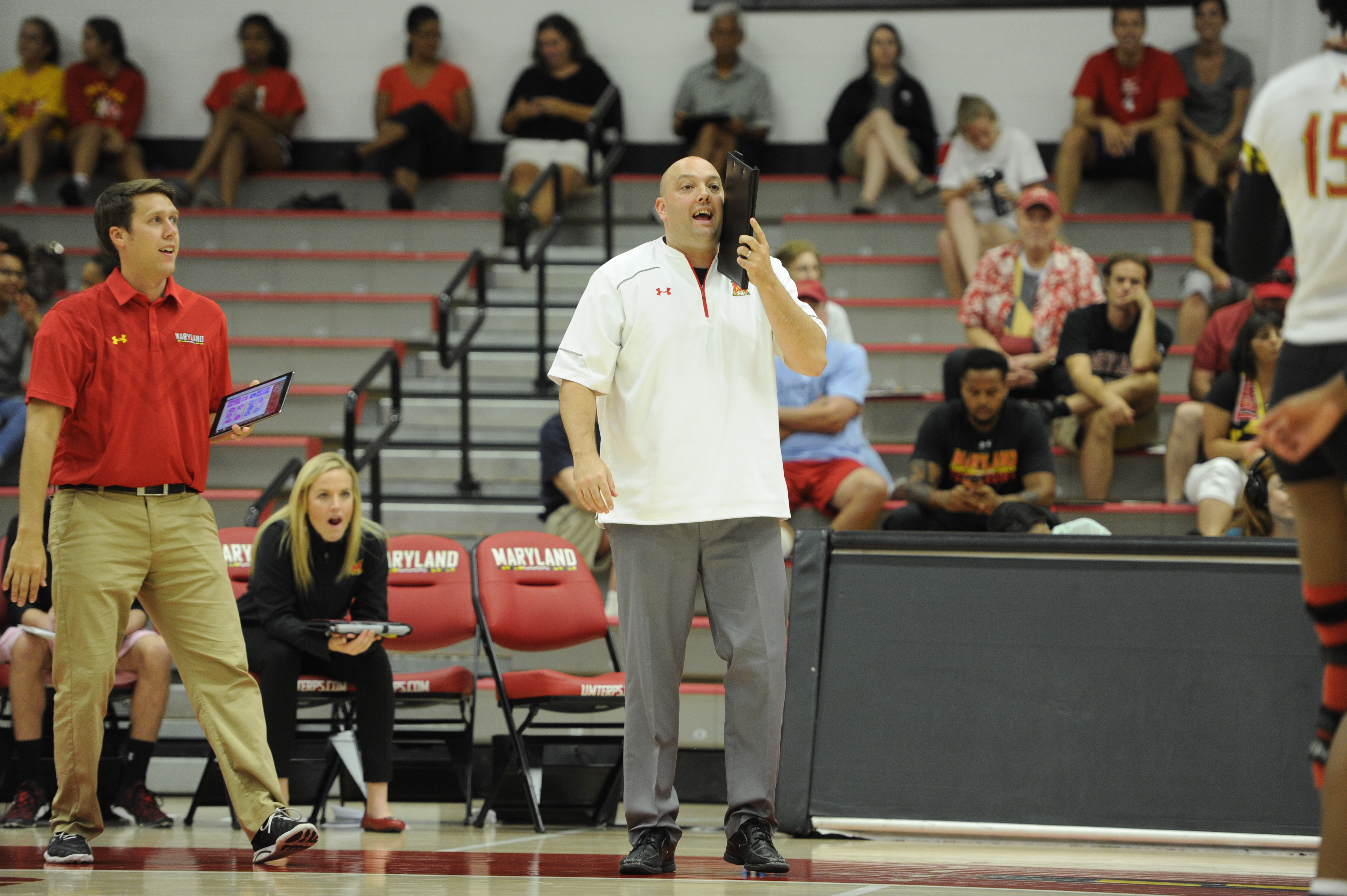 Aird vs. Illinois in 2015